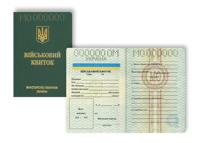 Military ticket (Military document) conscript military service of the Ukrainian army